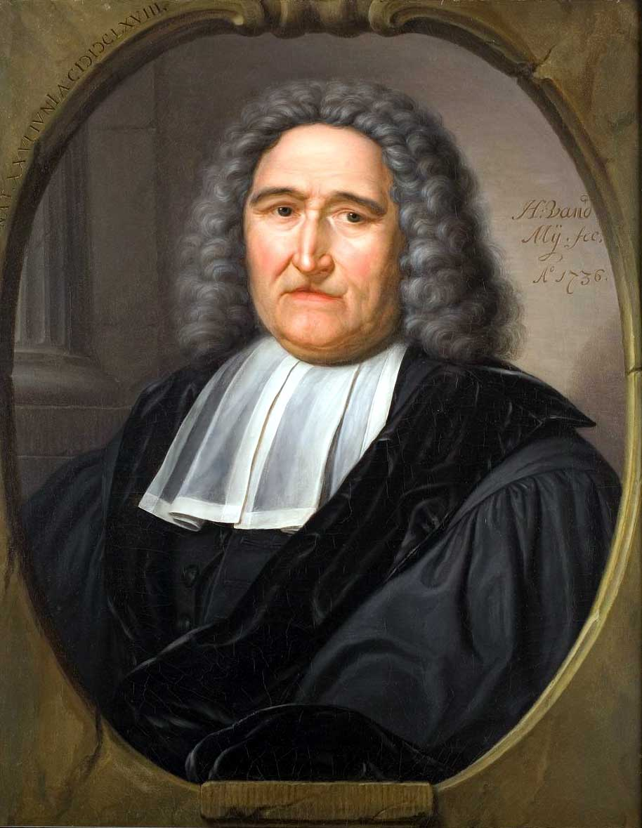 Pieter Burman the Elder also: Petrus Burmannus; (1668-1741) Dutch classical scholar, historian, librarian, lawyer and political scientist